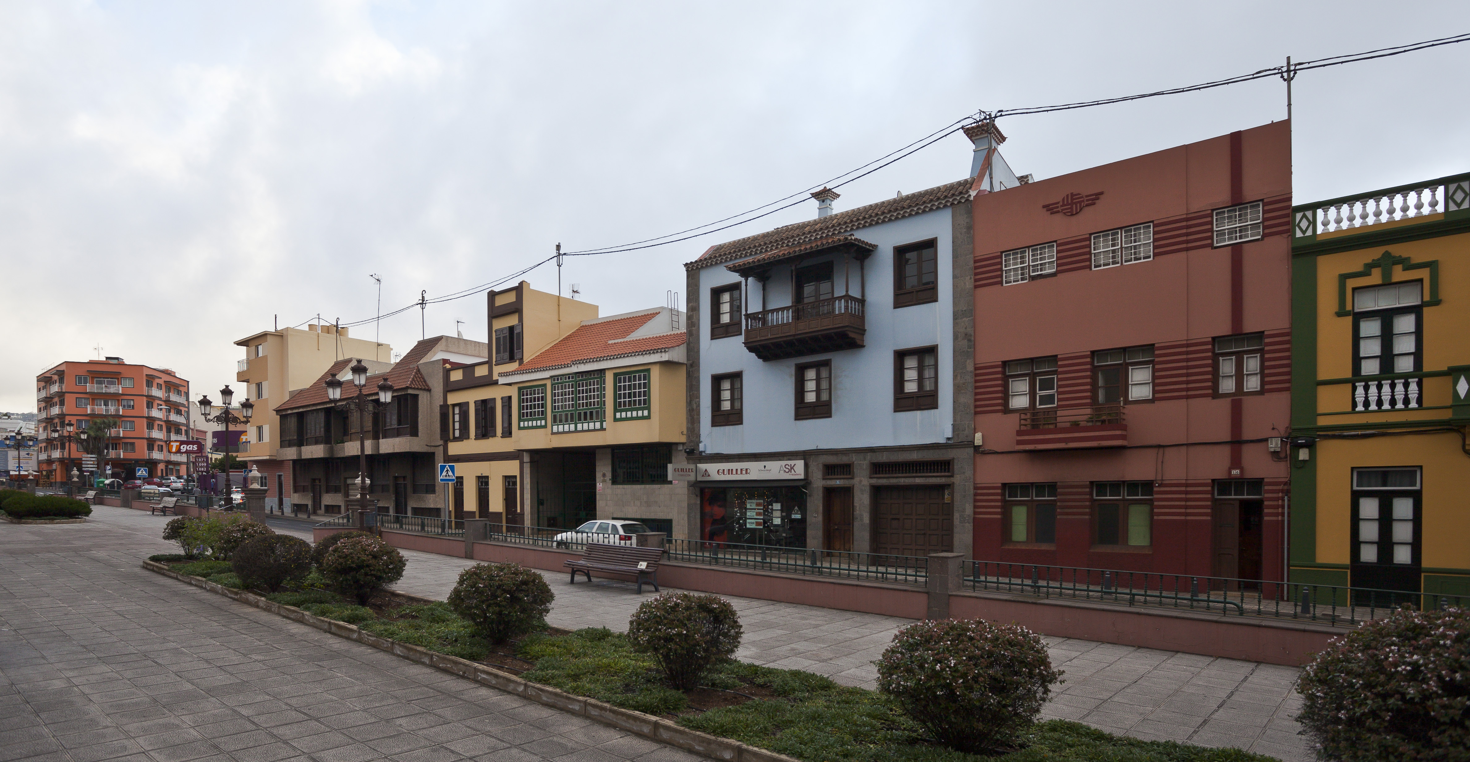 Avenue Calvo Sotelo, San Cristóbal de La Laguna, Tenerife, Spain